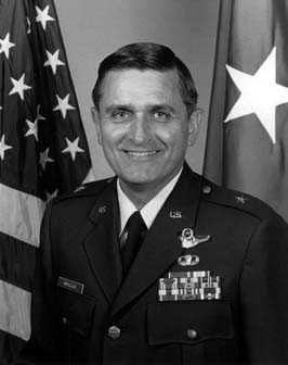 Thomas Mikolajcik from [1]